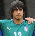 Mattia Perin in Italy U-19